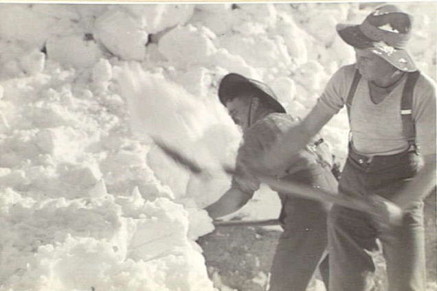 Soldiers from the Australian 2/3rd Infantry Battalion clearing snow in Syria, January 1942.